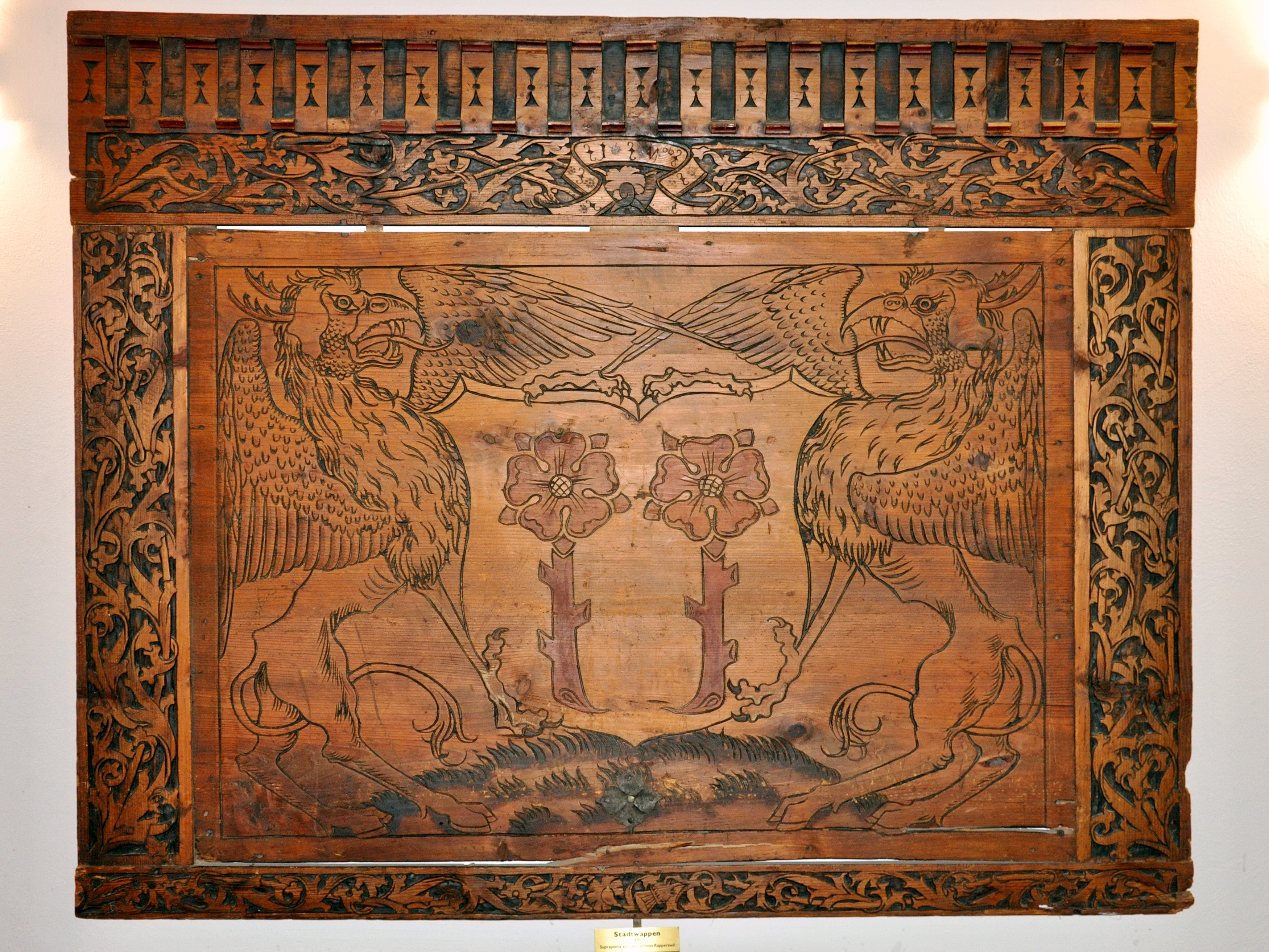 Rapperswil (Switzerland) : Supraporta of the Castle of Rapperswil with Coat of arms (1500), exposed in the former city and town hall (Rathaus).